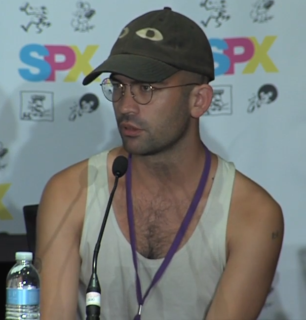 Canadian comics artist and illustrator Michael DaForge speaking at the Small Press Expo panel "Koyama & DeForge: Lose, Everyone Wins" on September 17, 2017.